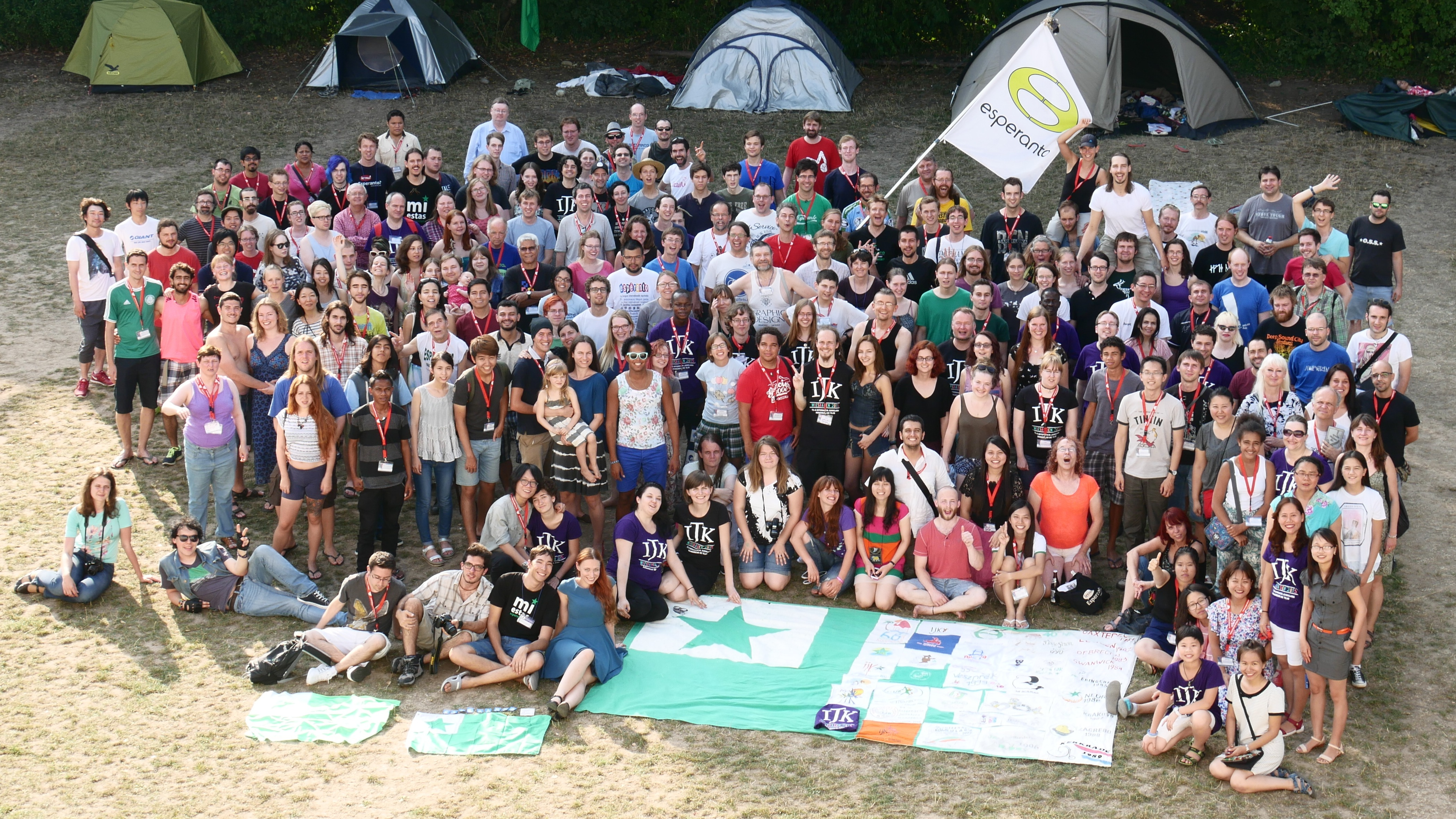 Group foto of the participants of the 71th International Youth Congress of Esperanto in Wiesbaden, Germany.